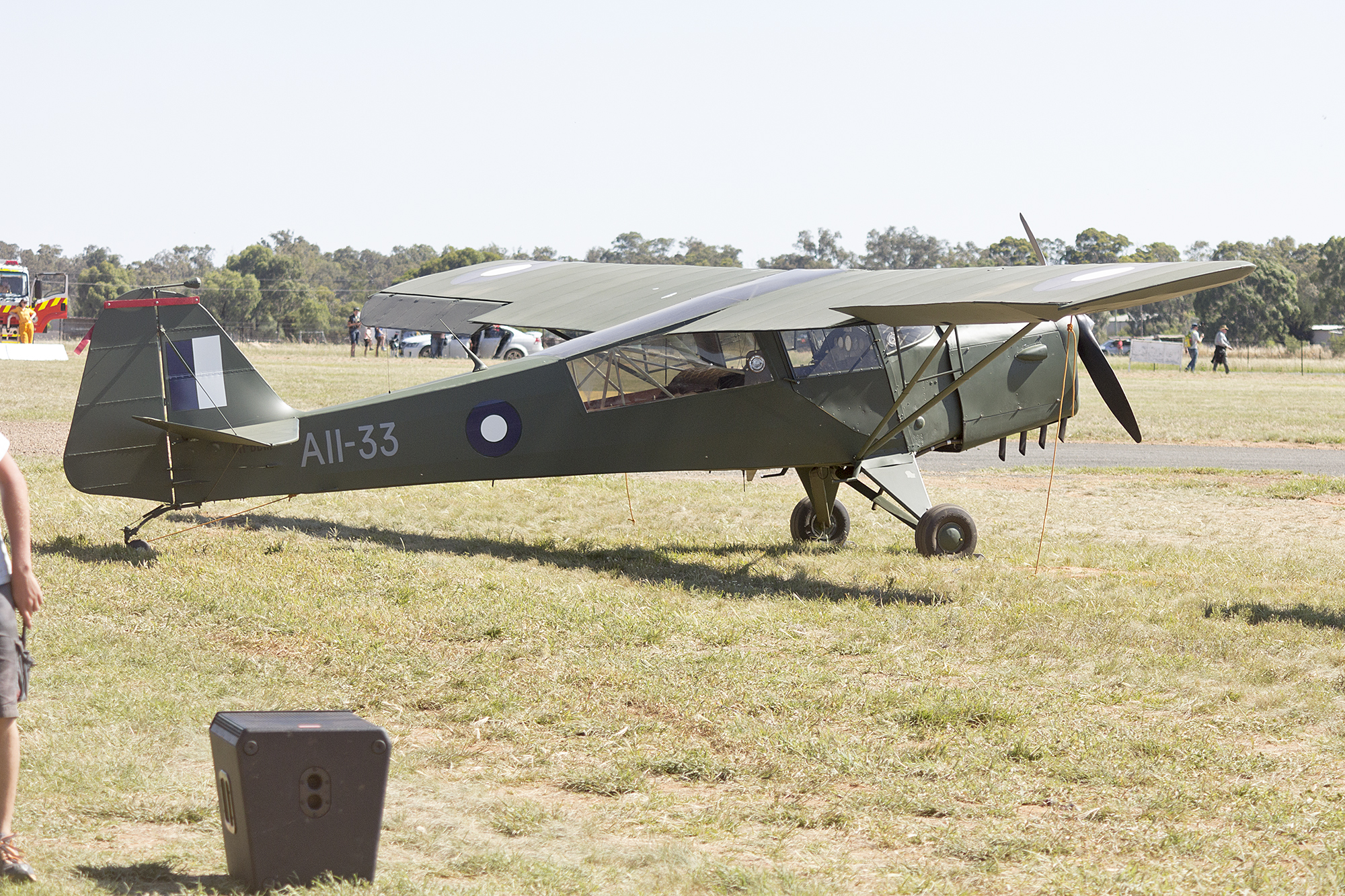 Taylorcraft Auster III (VH-BDM) at the 2015 Warbirds Downunder Airshow at Temora Aviation Museum.